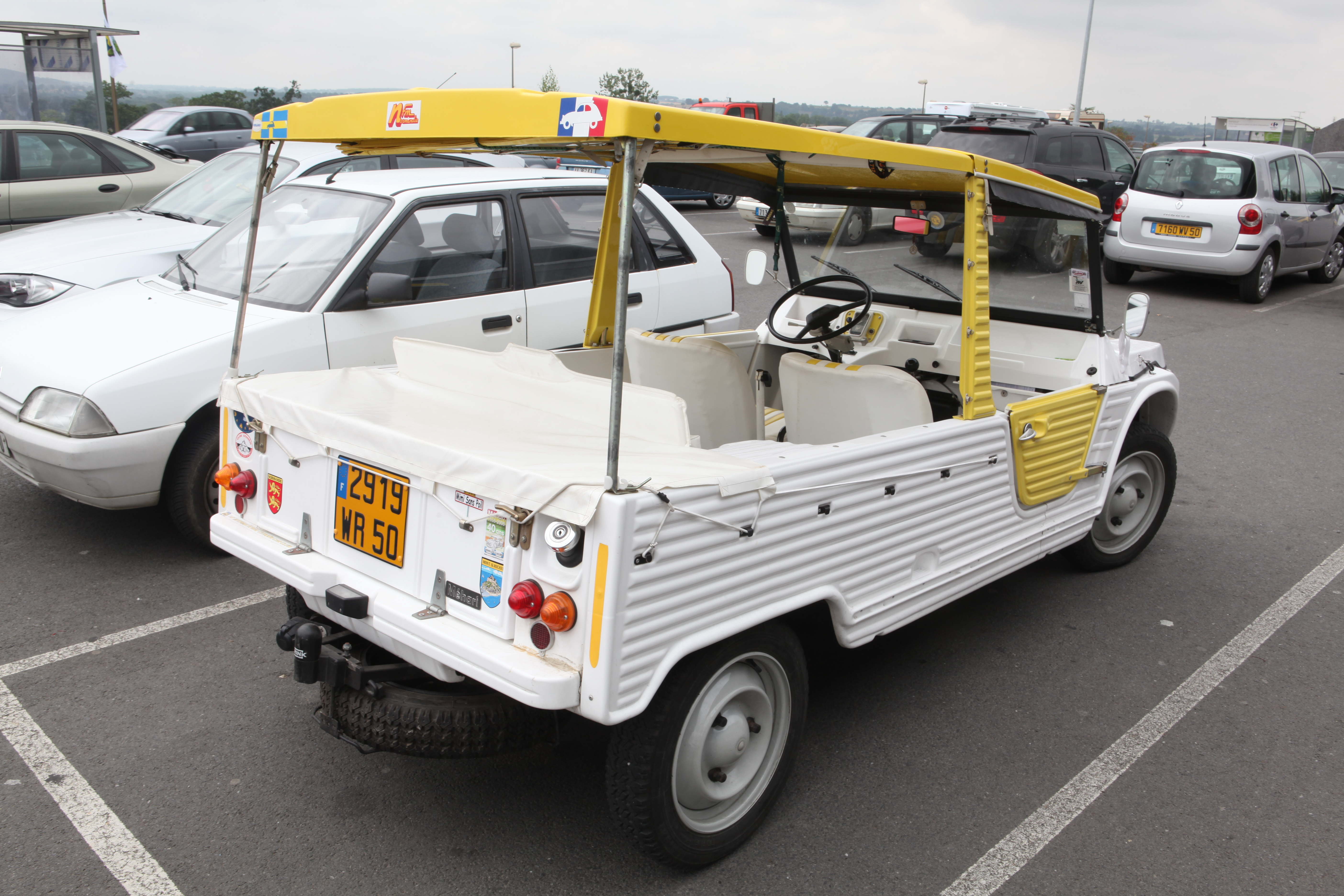 Yellow White Citroen Mehari